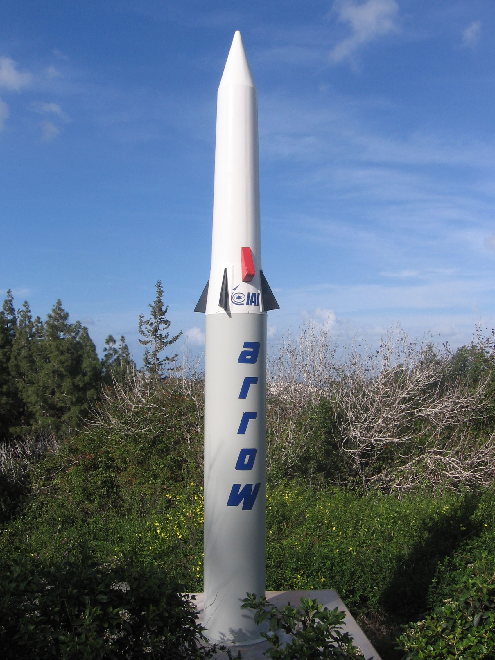 A model of the Arrow missile in the Technion - Israel institute of technology.